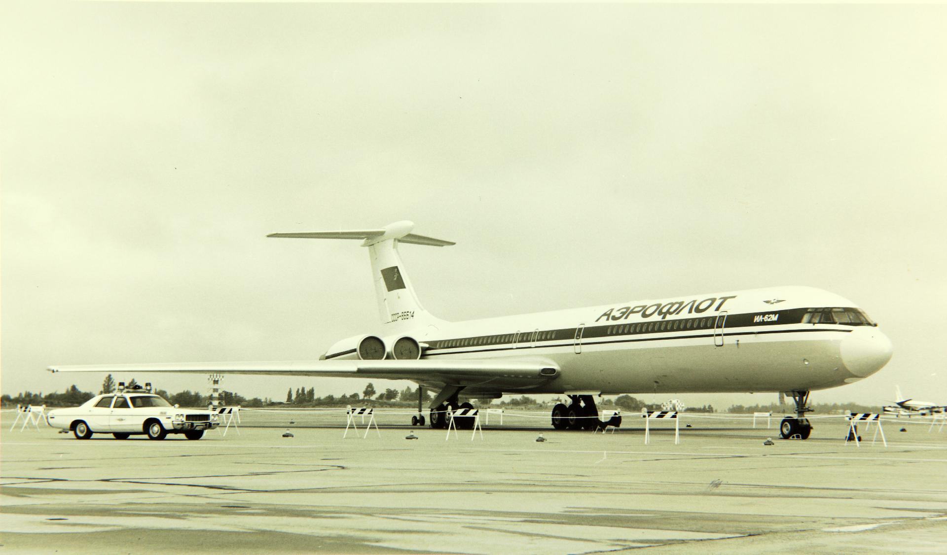 Aeroflot Il-62M, registered СССР-86614